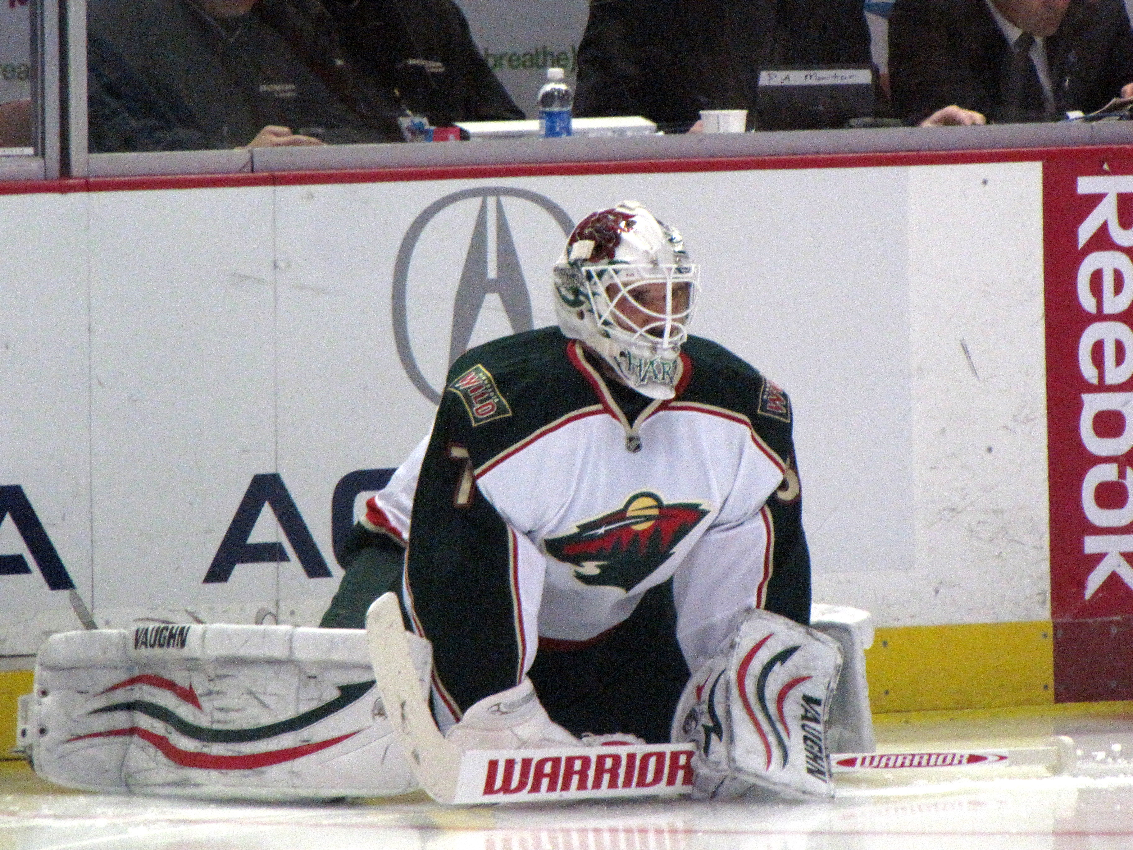 Goaltender Josh Harding of the Minnesota Wild prior to a game against the Anaheim Ducks on December 4, 2011.